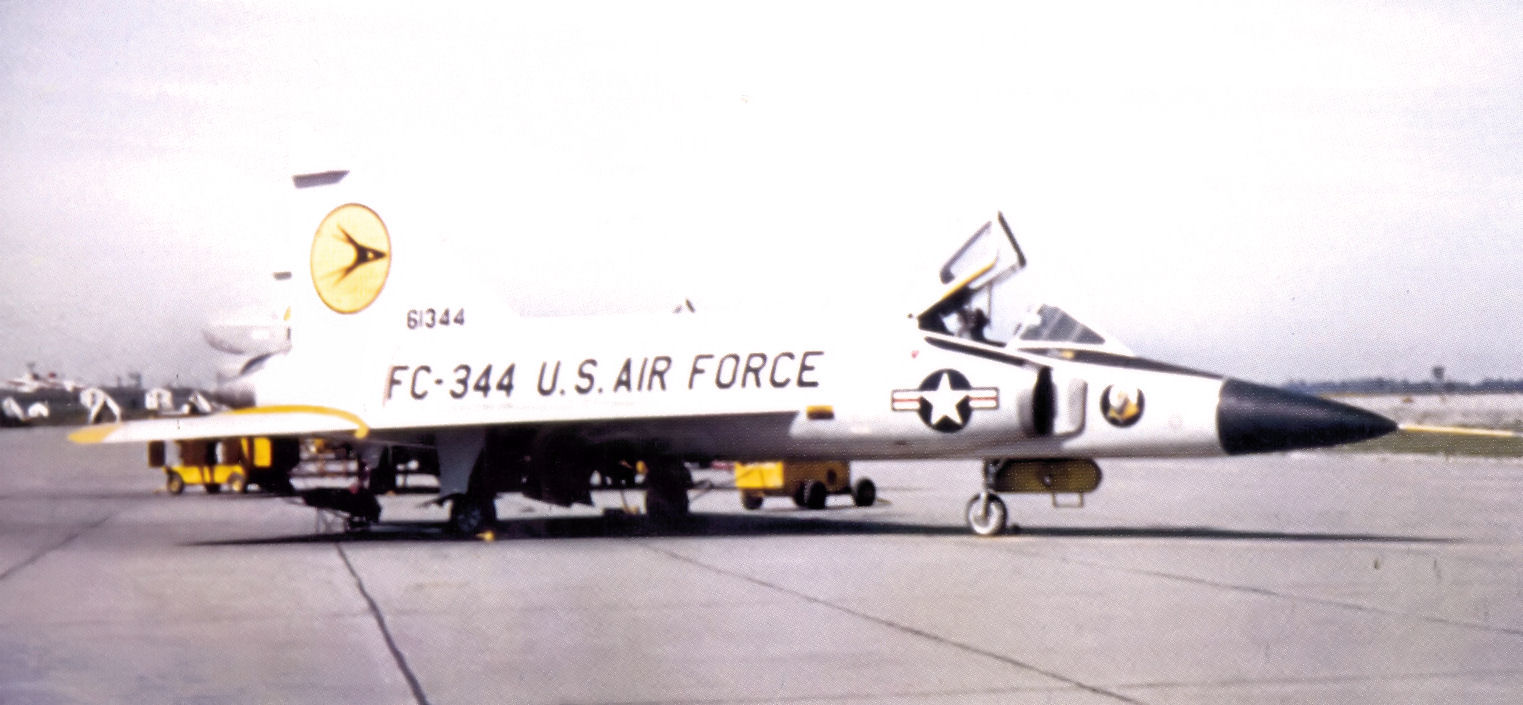 64th Fighter-Interceptor Squadron Convair F-102A-75-CO Delta Dagger 56-1344 326th Fighter Group, Paine Field, Washington, March 1960 56-1344 crashed into Crystal Peak, S of Port Angeles, WA Feb 8, 1964. Pilot killed.